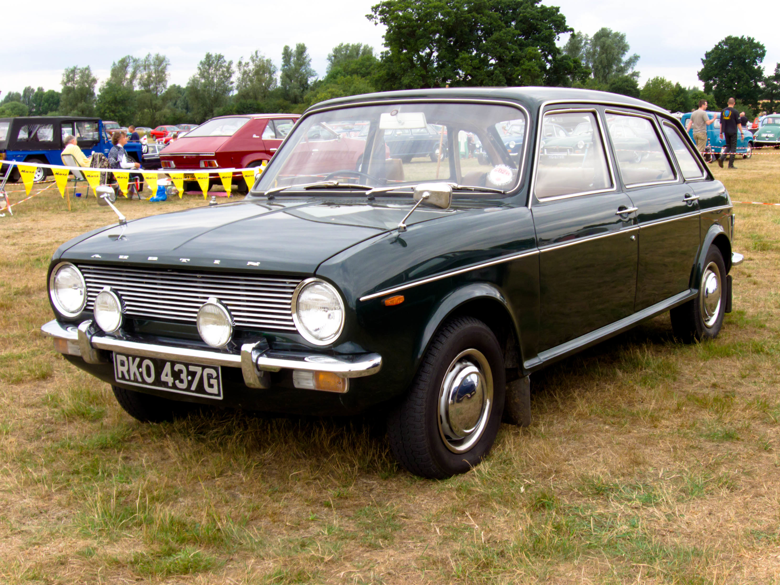 Austin Maxi early version